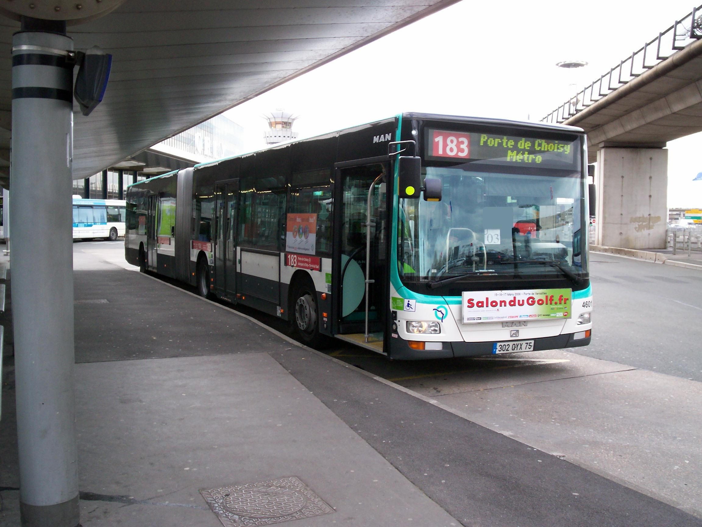 MAN NG 313 Lion's City G bus (#4601) in Paris, France. Built 2007, RATP Paris operator.